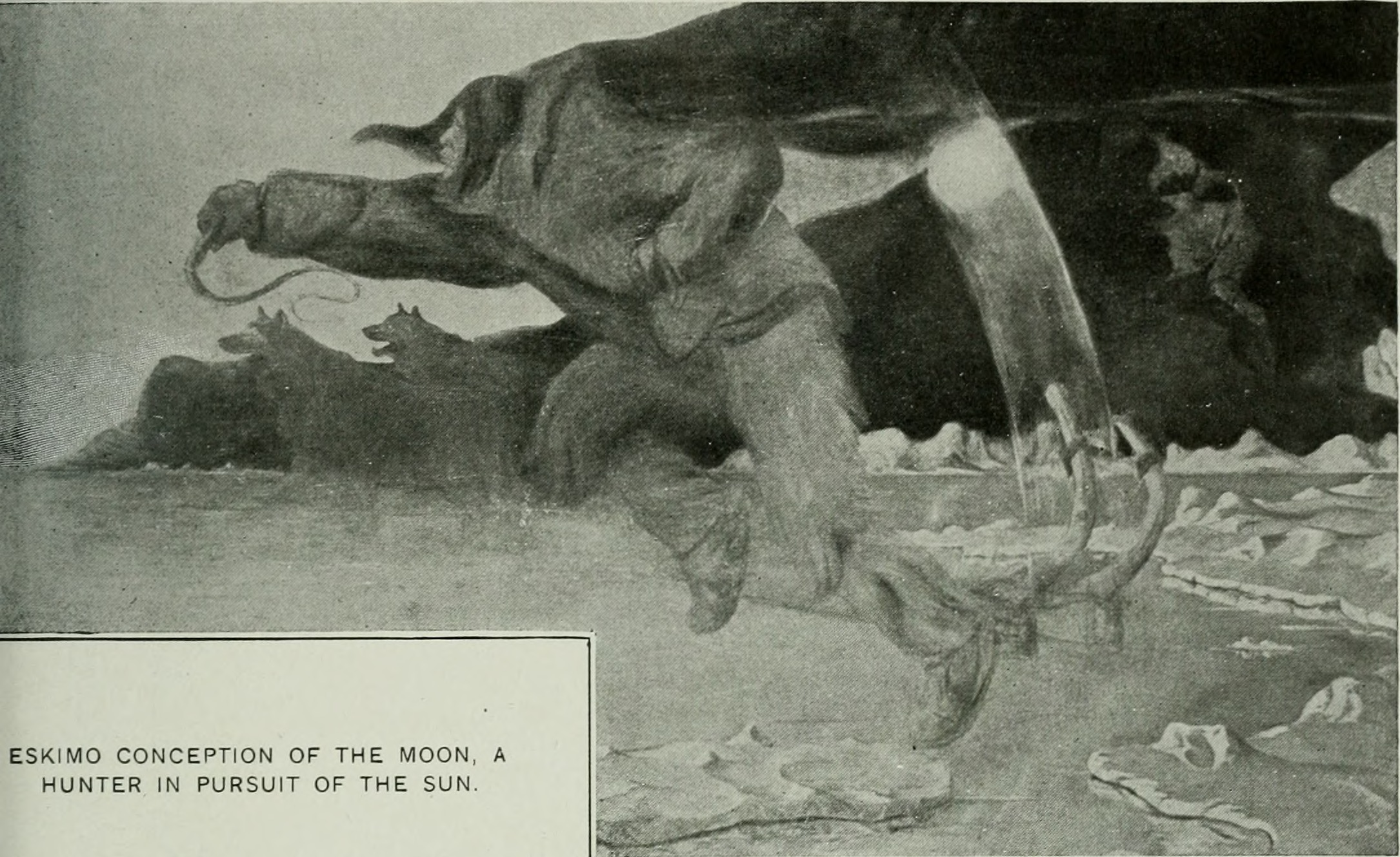 Title: The American Museum journal Year: c1900-(1918) (c190s) Authors: American Museum of Natural History Subjects: Natural history Publisher: New York : American Museum of Natural History Text Appearing Before Image: PAINTINGS OF GREENLAND ESKIMO 213 Text Appearing After Image: ESKIMO CONCEPTION OF THE MOON, HUNTER IN PURSUIT OF THE SUN. Copyright 1908 by Frank Wilbert Stokes. Courtesy of Scribner's Magrizine. the moon and ushering in the long winter, and Sukh-eh-nukli, standing for the sun, a goddess accompanied by summer and plenty. Ahn-ing- ah-neh is dressed in winter garb and is driving his team of dogs. The lower part of the figure, like the dogs and sledge, are shadowy in the painting, but the upper part reaching forward in the chase, the head and the right arm with its lashing whip, stand out strong and dark as the forward part of a night cloud that sweeps over the glacier-covered heights. Sukh-eh-nukh is represented by a figure uncovered to the waist (the Eskimo, both men and women, occasionally strip off the upper garments in the summer sun). She carries in her right hand an Eskimo lamp, shown as a sun-dog or parhelion such as is often seen near the horizon at sunrise and sunset in the Arctics. She is a part of a cumulus summer cloud that floats near her head. Summer birds are about her, a long line following from the far away horizon. Two fulmar gulls are flying in front of her, and two harbor seals are crying to her, the " Mother of the Seals," from floating ice below, where also little Arctic puffins are ranged in military line.